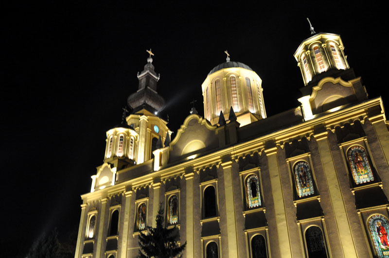 The serbian orthodox church in Sarajevo.